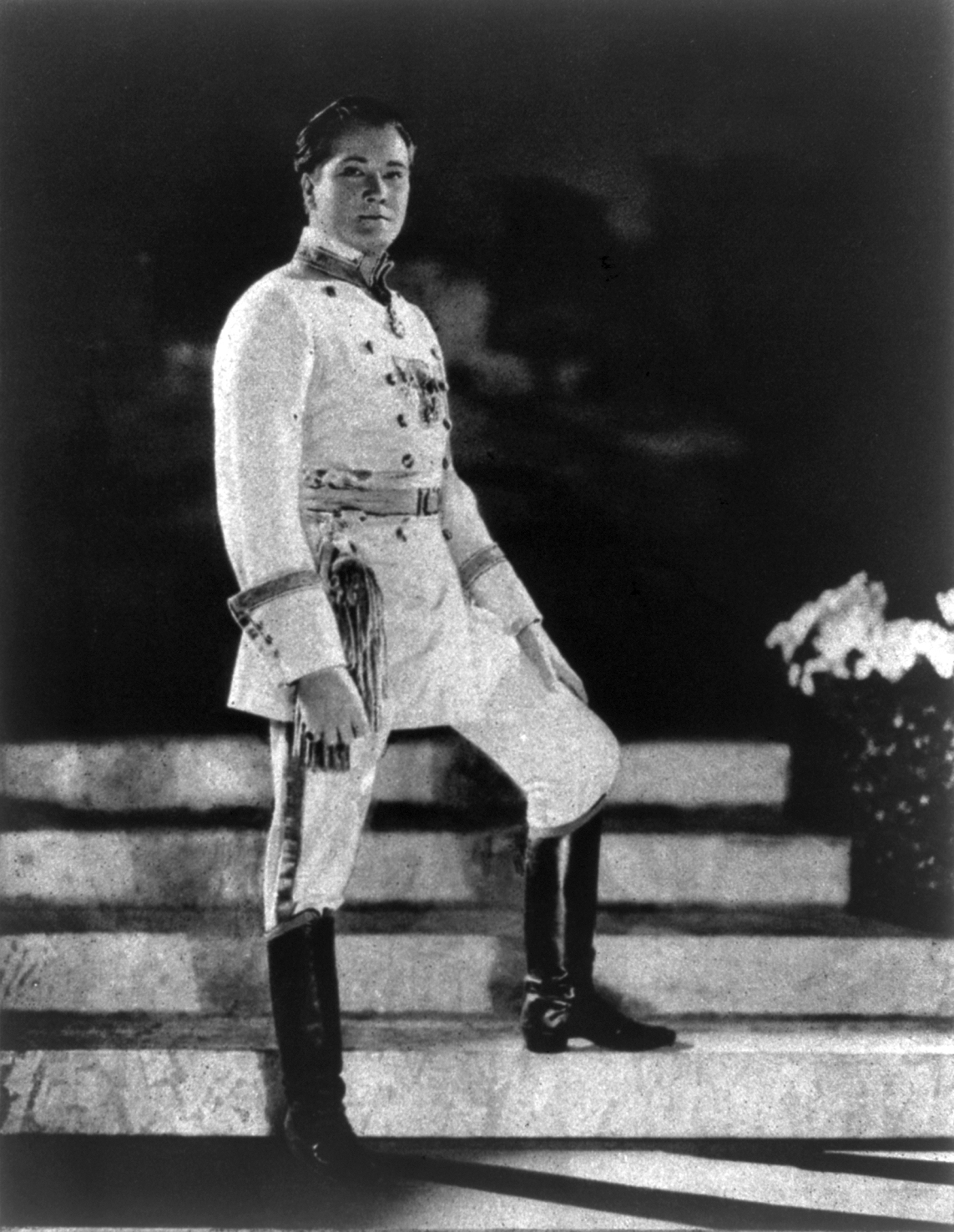 John Charles Thomas, full-length portrait, standing on steps, facing right.